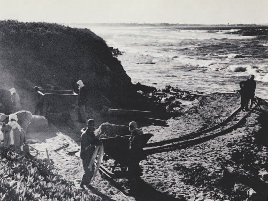 Begin of archaeological excavations in the Goodchild Trench at Leptis Magna. In the background is the village of Al Khums (Homs).